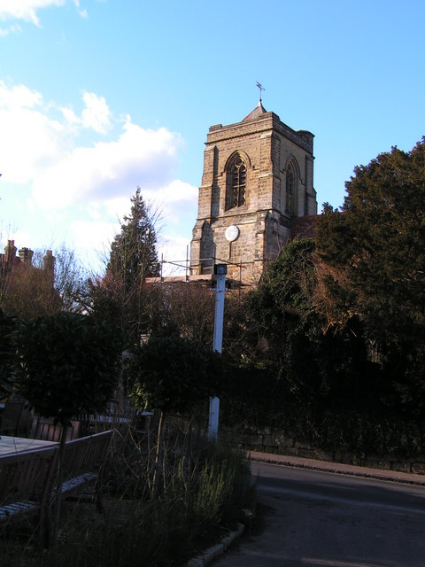 Speldhurst Church Tower. Taken from the George & Dragon public house car park.